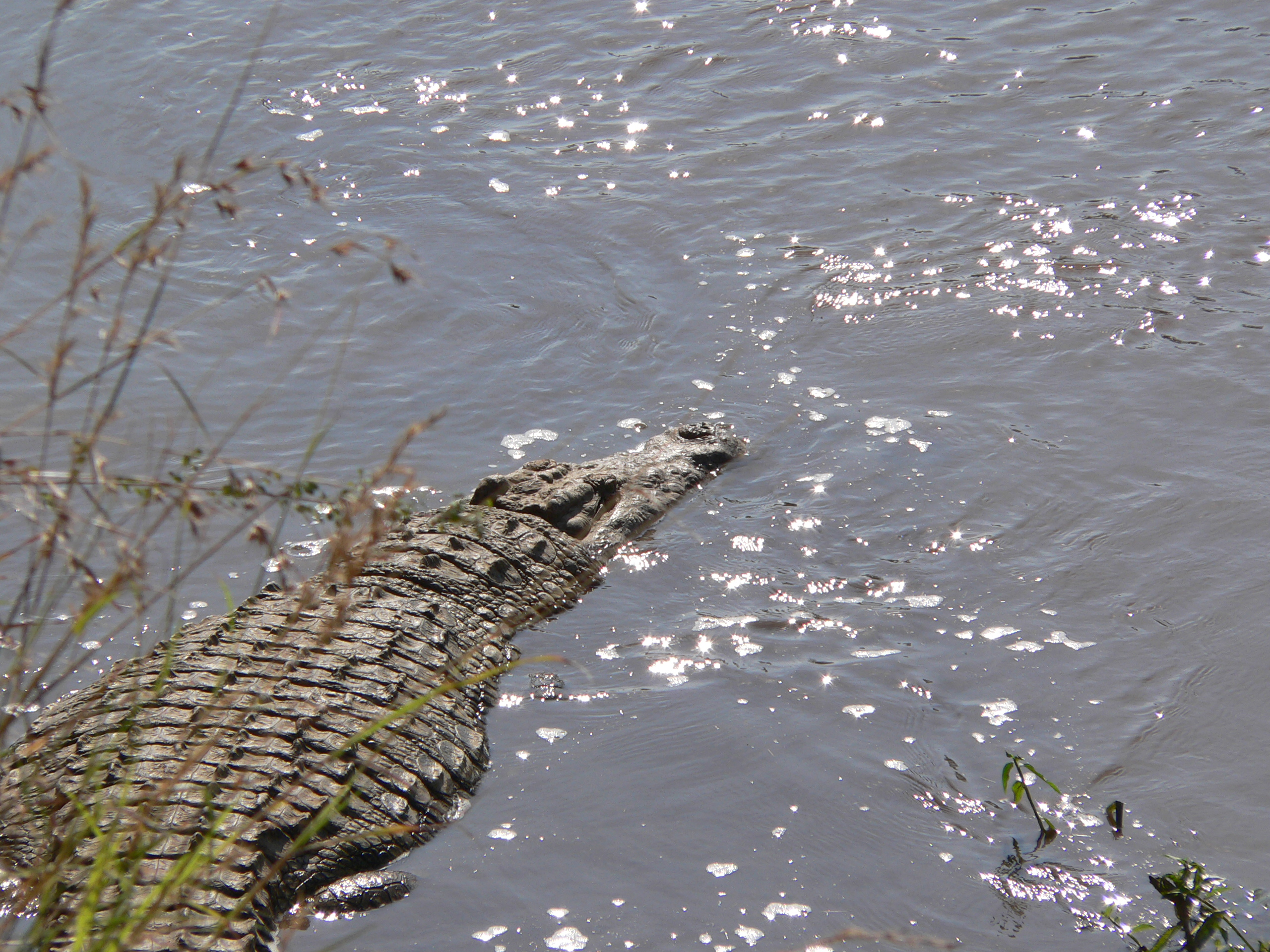 This thing was huge, easily 8ft long and about 3ft wide and was just below me when I took the shot!